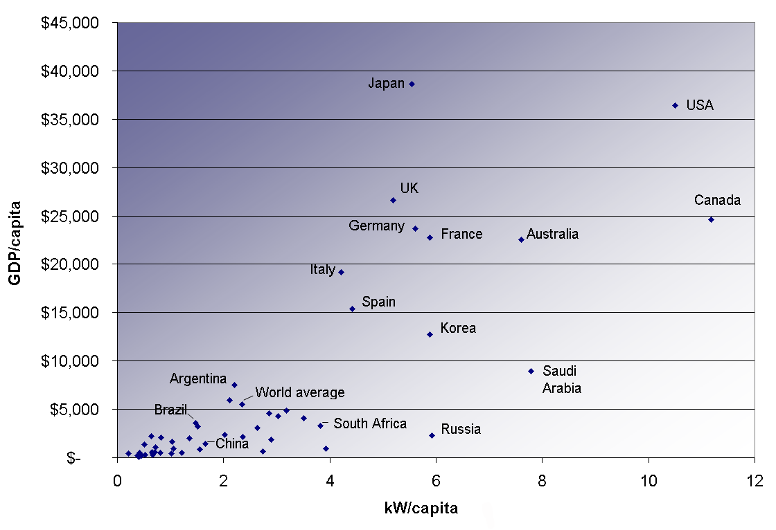 Note: Data is 2004 in 2000 US dollars. Author: Frank van Mierlo Please credit the author if you are using this image. Graph was produced from data in the 2006 Key World Energy Statistics from the International Energy Agency.